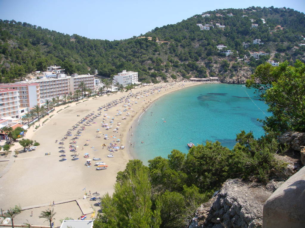 I took these pictures in Ibiza after the wedding.